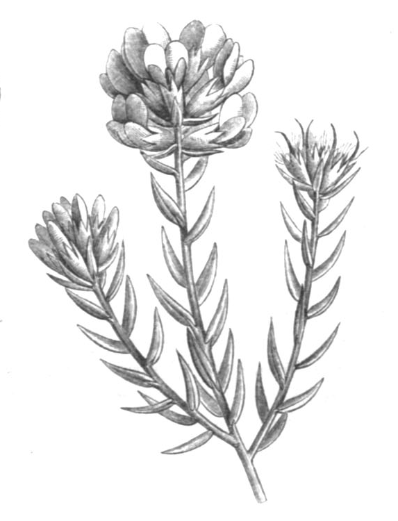 Illustration from book